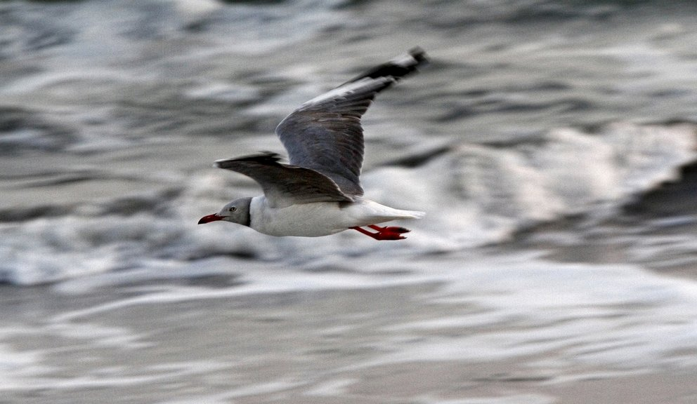 A Grey-headed Gull flying in Gambia.